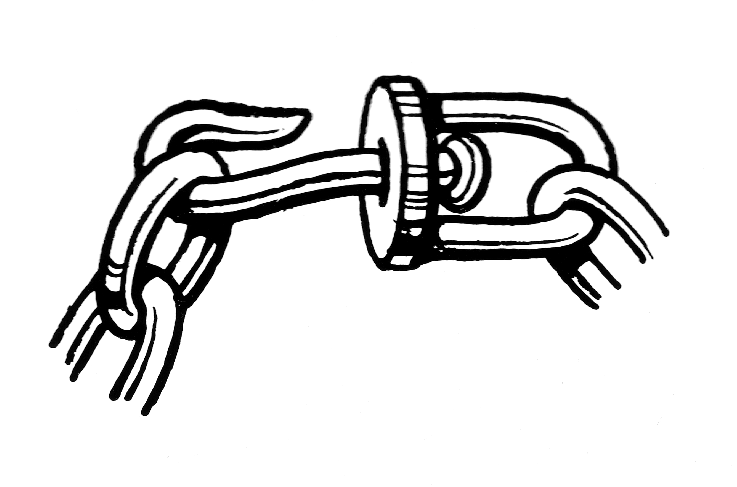 Swivel